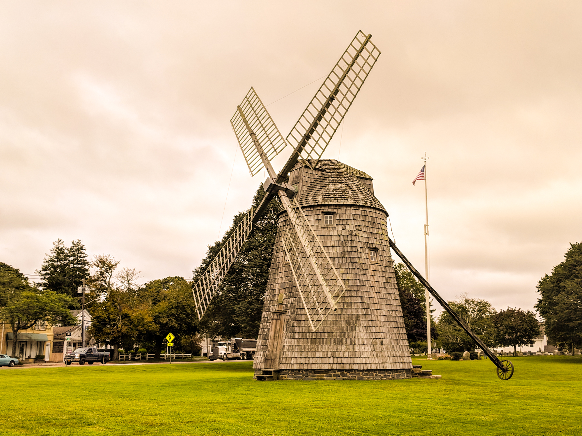 Landmarked windmill